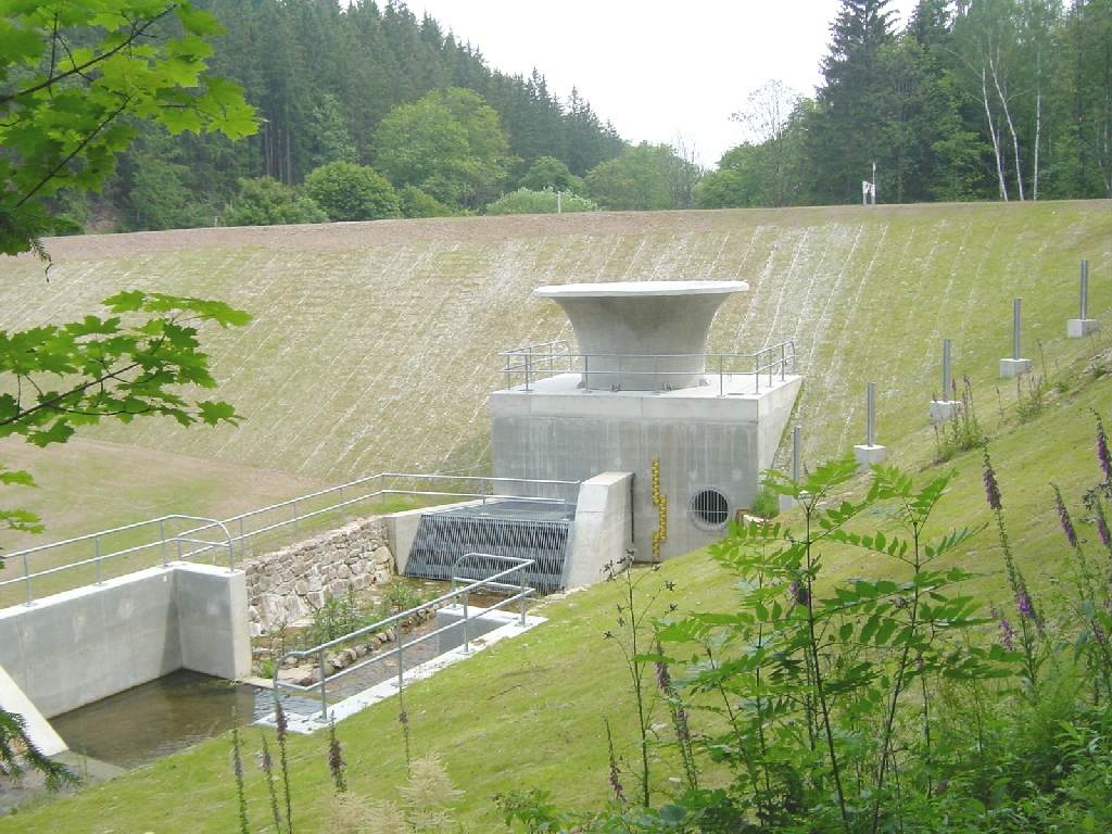 reconstructed dam in Glashütte, Saxony, Germany